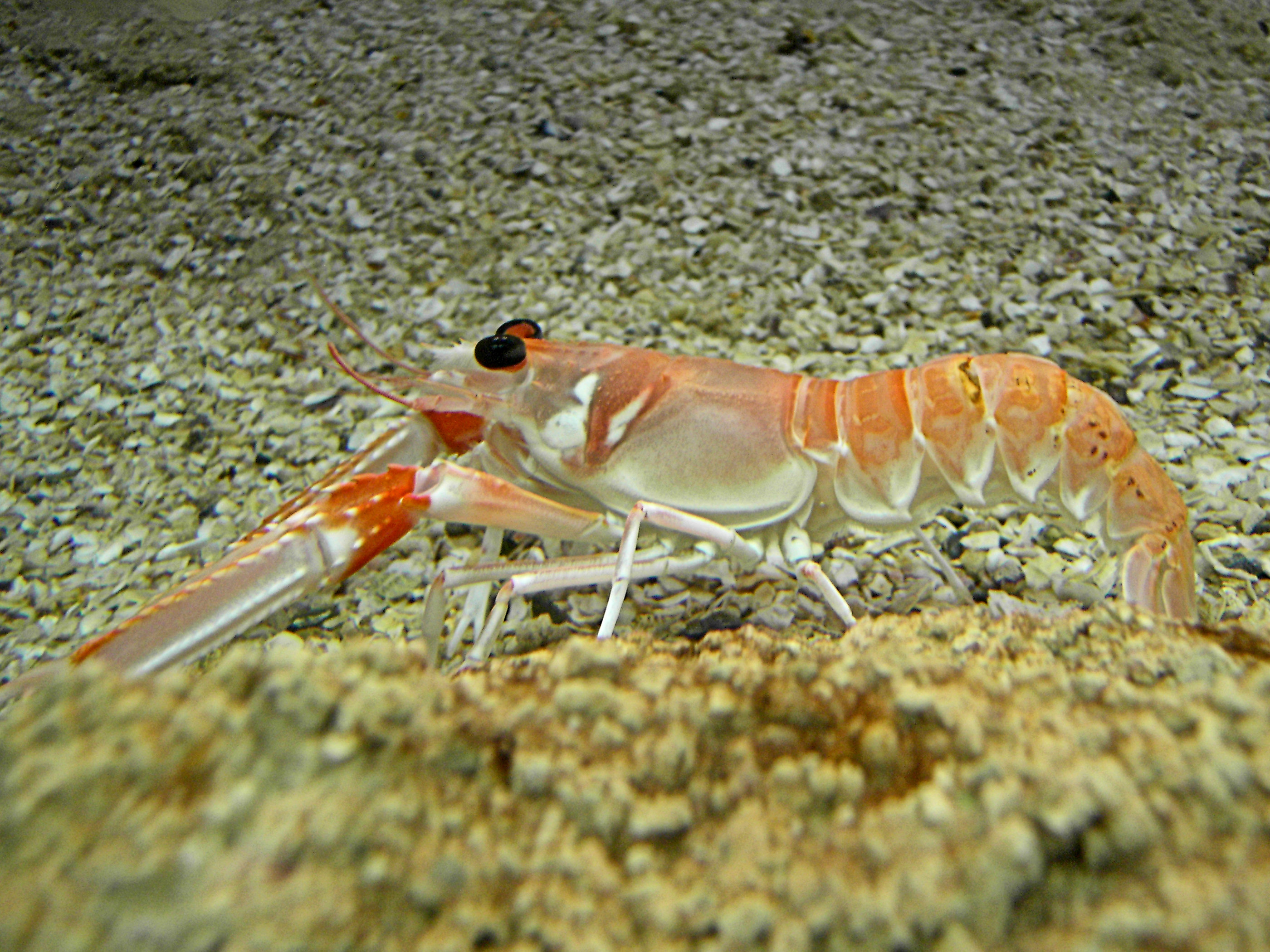 At the Cretaquarium near Heraklion, Crete.